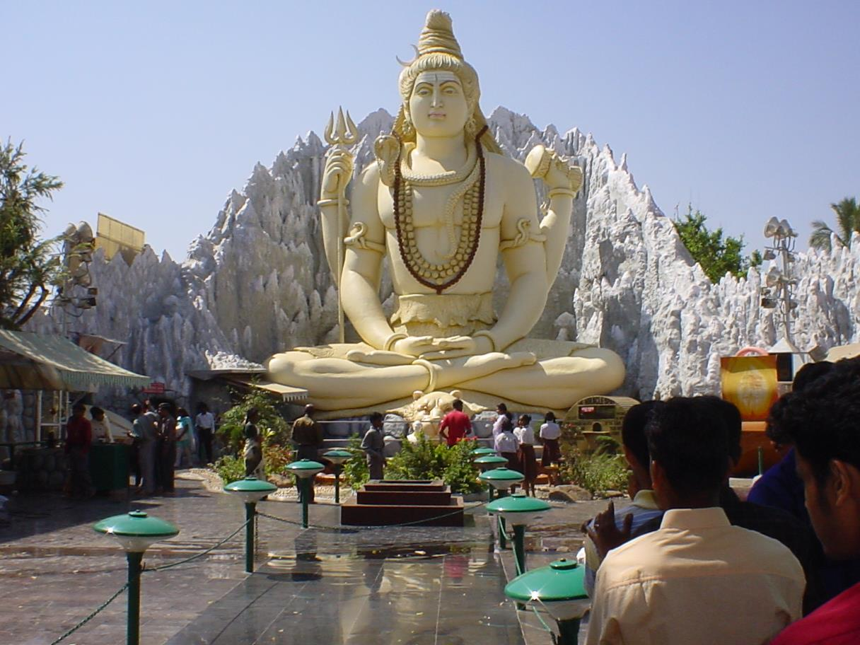 This shiva temple is close to the old airport in Bangalore